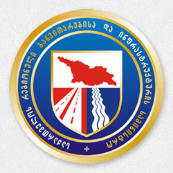 Georgia Ministry of Regional Development logo